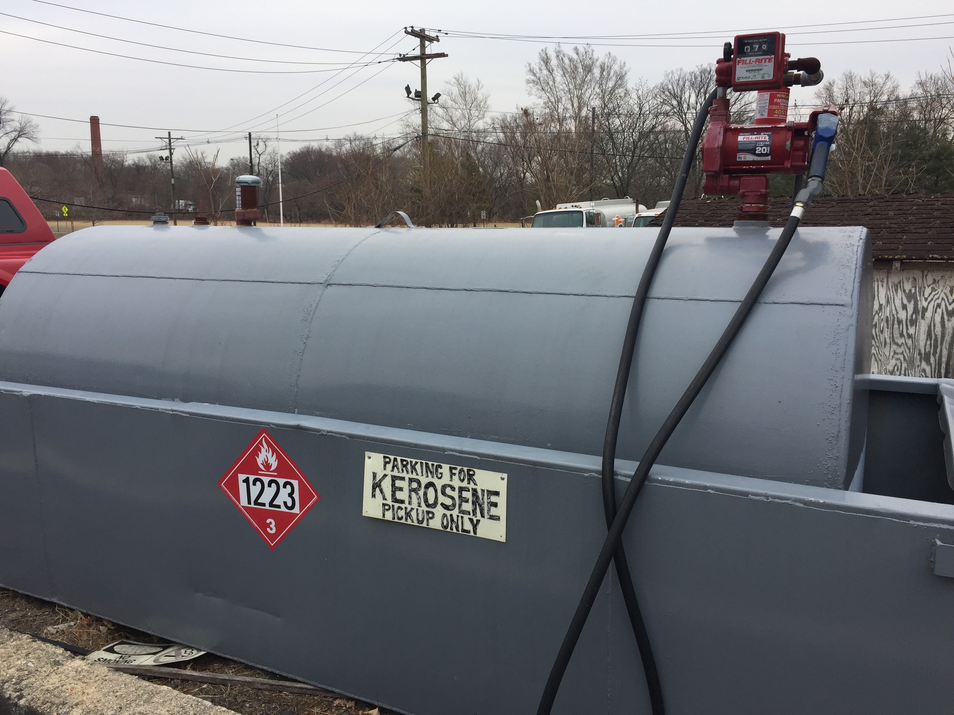 Kerosene storage tank located in Raritan NJ used by local fuel company to refill customer's kerosene containers.